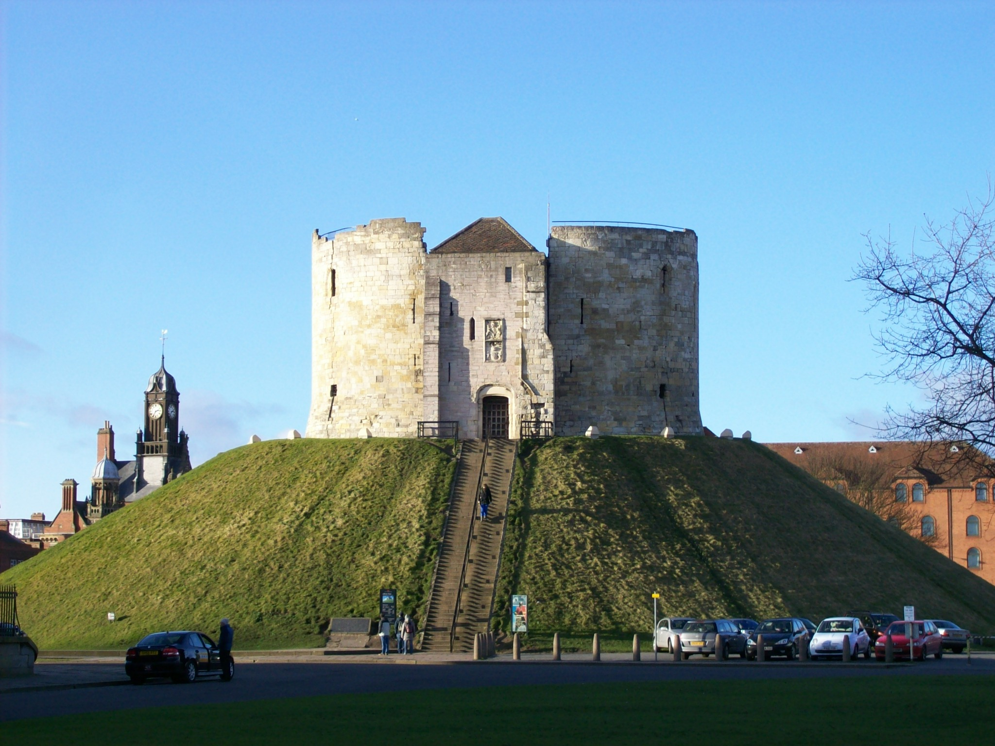 Clifford's Tower